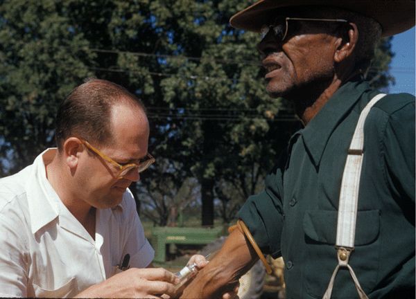 Doctor injects test subject with placebo as part of the Tuskegee Syphilis Study